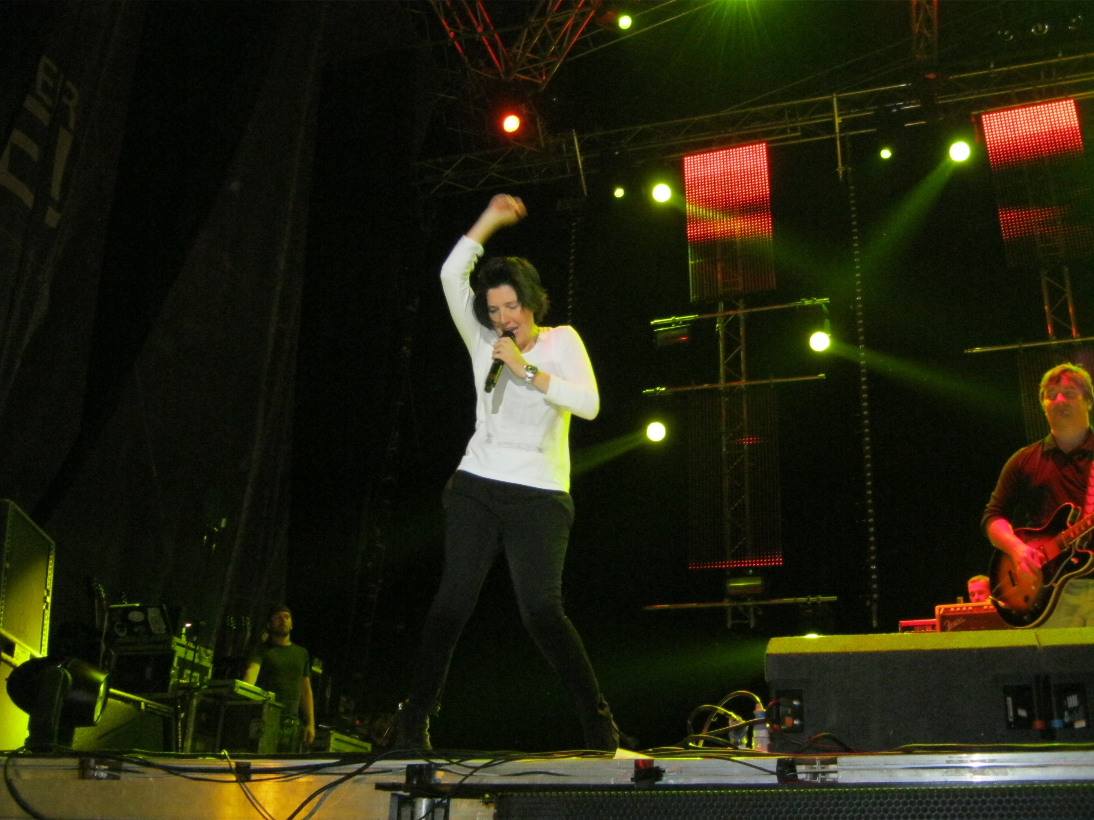 Texas, British pop band, in July 2011